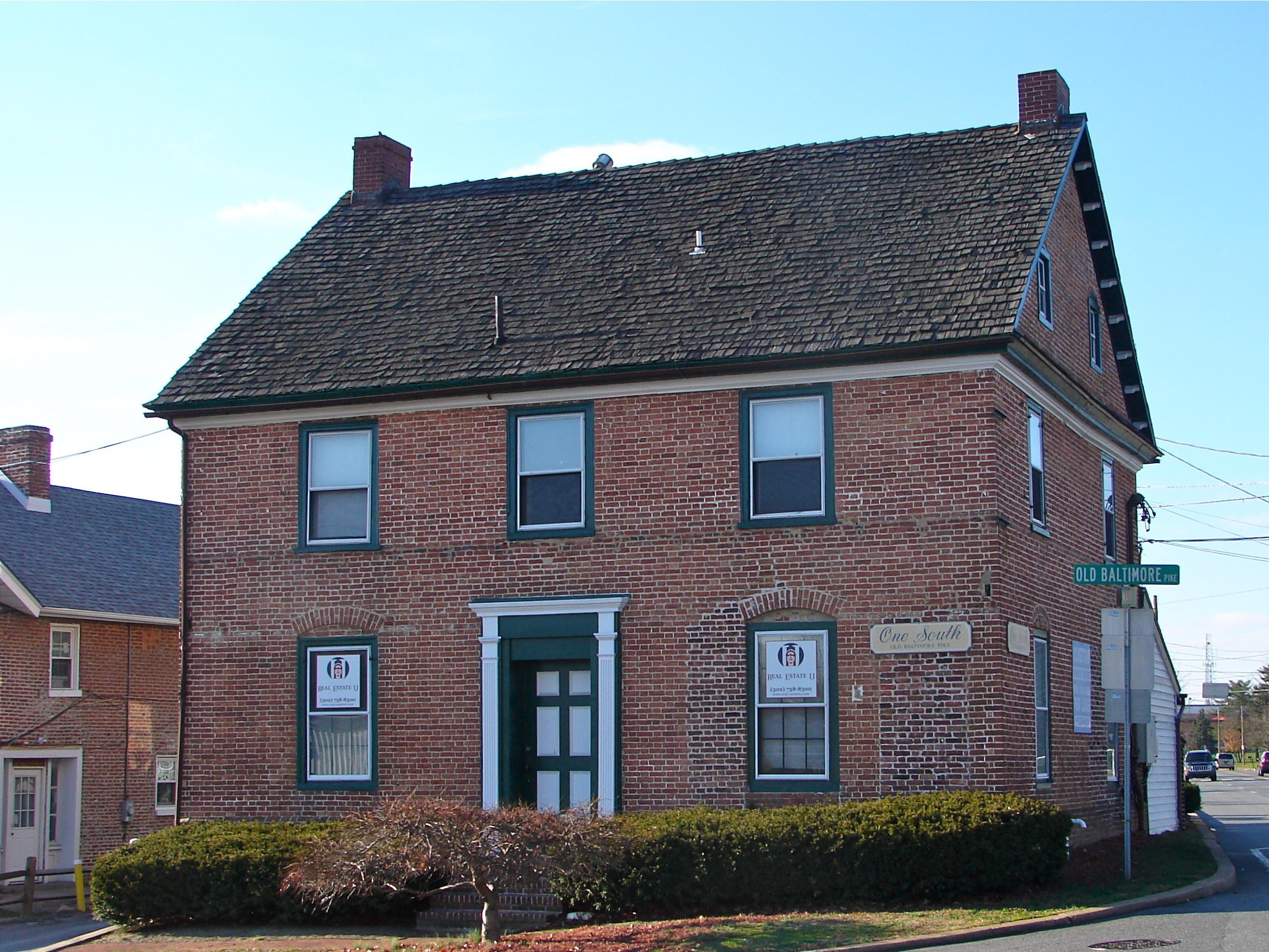 House in the Christiana Historic District on the NRHP since December 16, 1974. At Junction of Delaware Routes 7 and 273 (both house and district - house is on the SW corner), Christiana, Delaware.